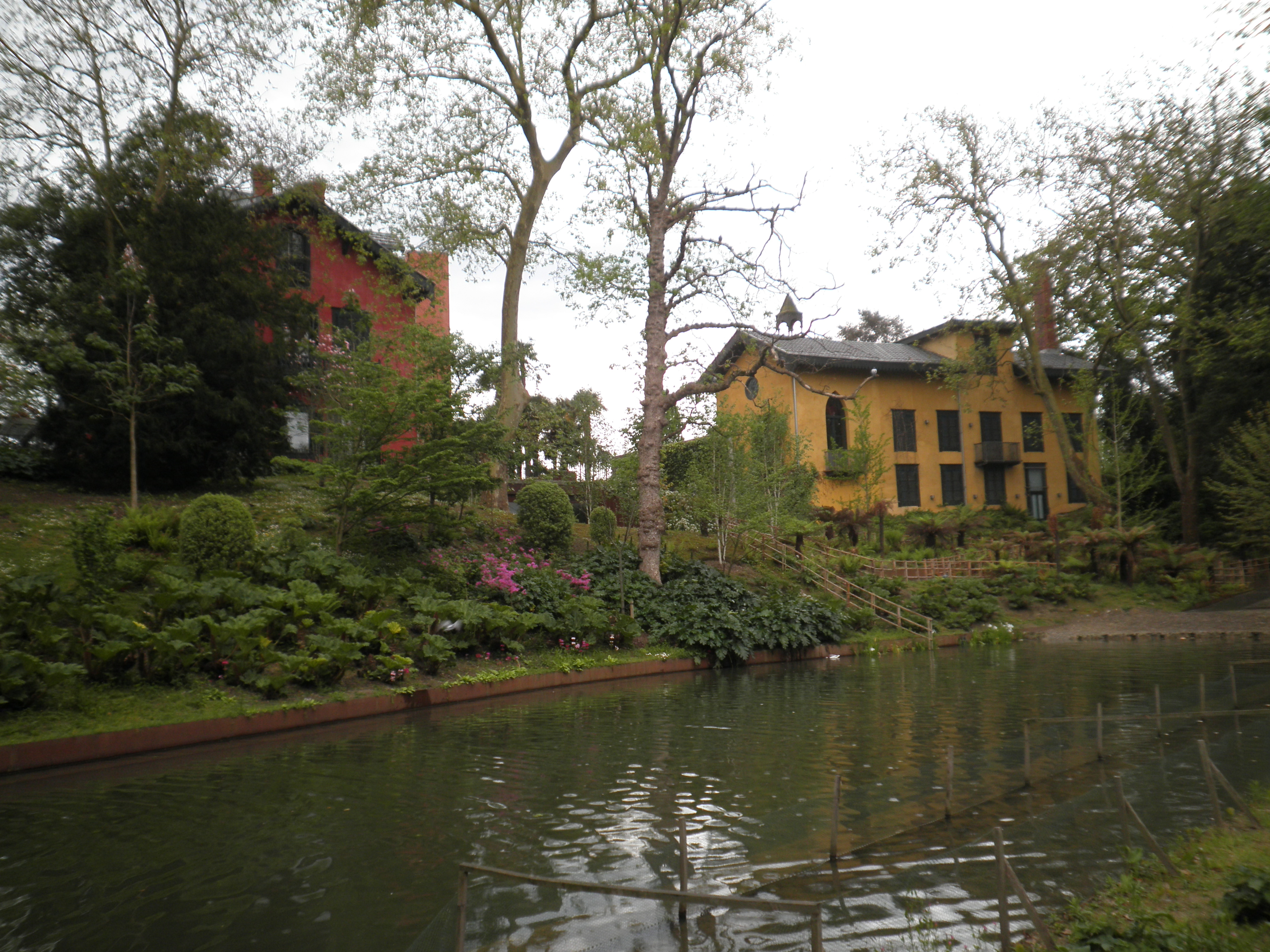 Lake in Cristina Enea park